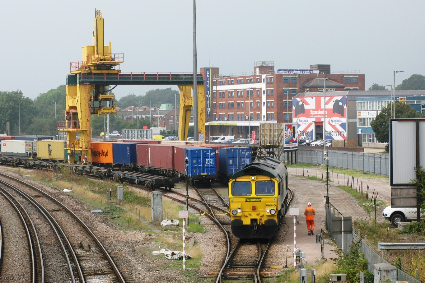 Freightliner's 66540 has just propelled a container train into the sidings at Millbrook and is now heading out onto the main line where it will reverse and run a short distance down to to the larger Southampton Maritime Terminal.